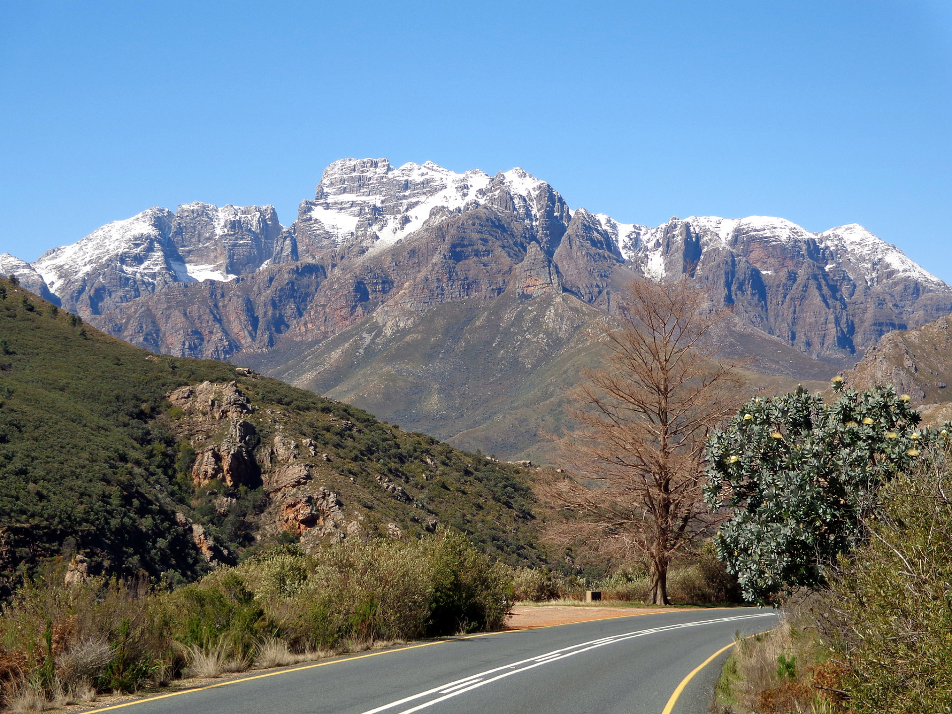 Du Toitskloof Mountains, 2 September 2013